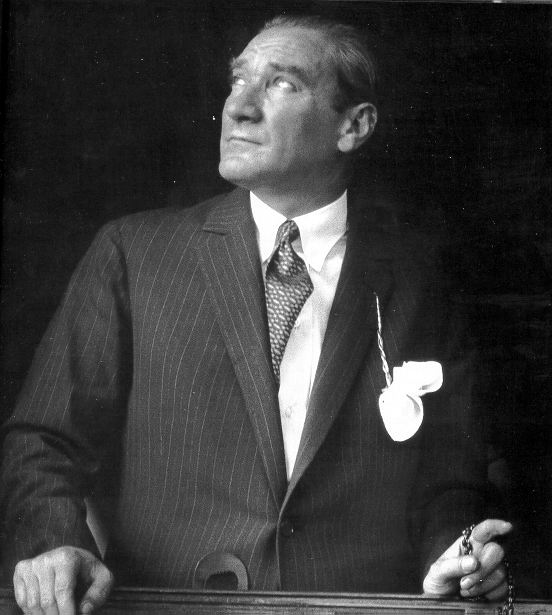 Mustafa Kemal Atatürk